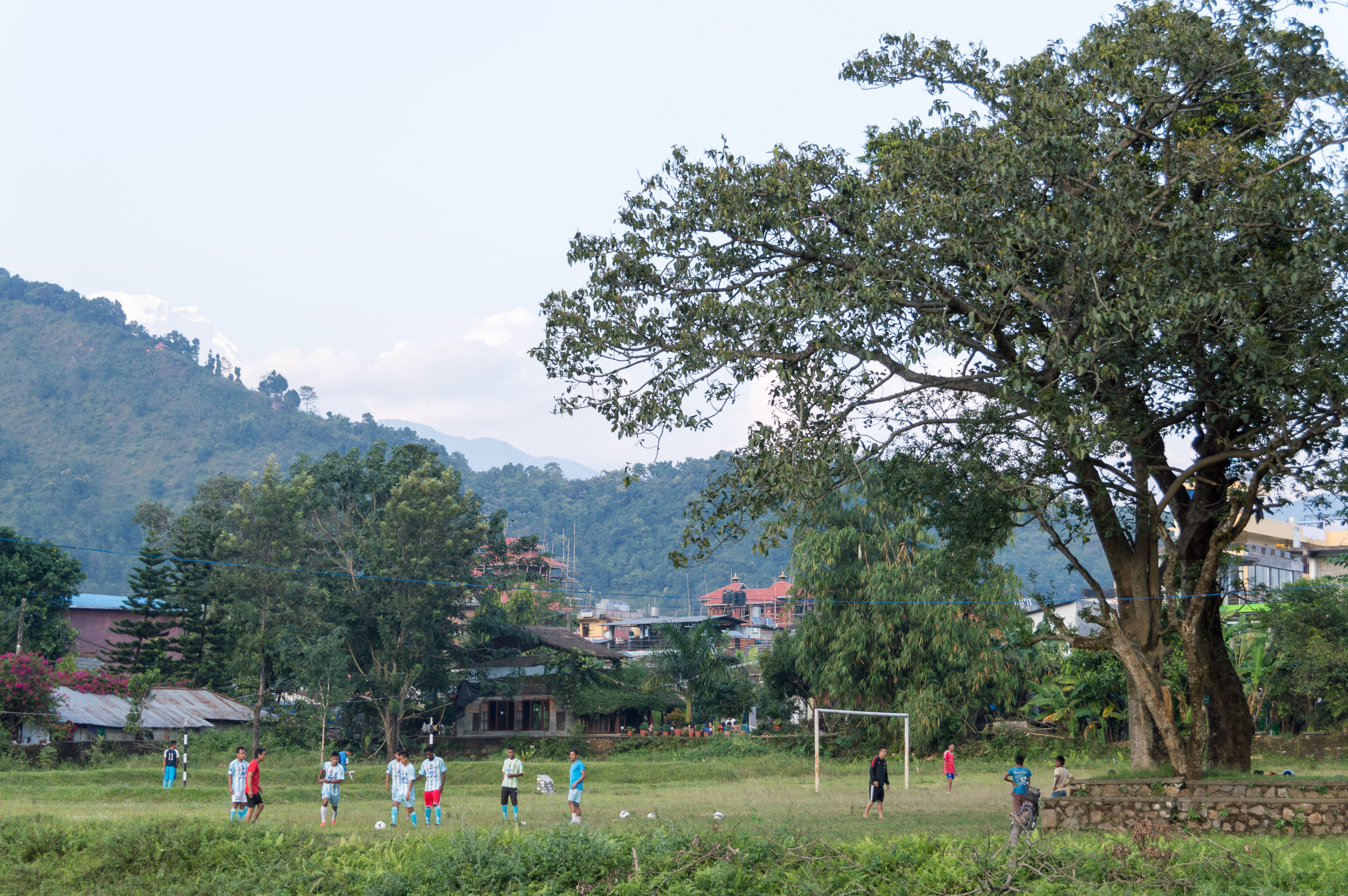 Football / Pokhara, Nepal